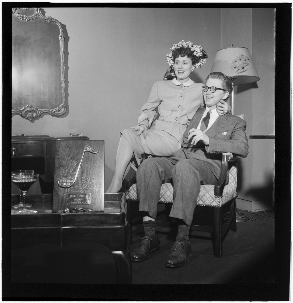 Gottlieb, William P., 1917-, photographer. [Portrait of Melvin G. Powell and Martha Scott in their home, Connecticut, ca. May 1947] 1 negative : b&w ; 2 1/4 x 2 1/4 in. Caption from Down Beat: Mel Powell and his wife, Martha Scott of the movies, view Mel's Down Beat poll trophy at their home in Connecticut, where the pianist is convalescing from a siege of illness. He has no immediate plans to return to music, he says. Notes: Gottlieb Collection Assignment No. 267 Reference print available in Music Division, Library of Congress. Purchase William P. Gottlieb Forms part of: William P. Gottlieb Collection (Library of Congress). In: "Powell resting," Down Beat, v. 14, no. 11 (May 21, 1947), p. 2. Subjects: Powell, Melvin G. Scott, Martha, 1914- Jazz musicians--1940-1950. Pianists--1940-1950. Format: Portrait photographs--1940-1950. Group portraits--1940-1950. Film negatives--1940-1950. Rights Info: Mr. Gottlieb has dedicated these works to the public domain, but rights of privacy and publicity may apply. Repository: (negative) Library of Congress, Prints & Photographs Division, Washington D.C. 20540 USA, (reference print) Library of Congress, Music Division, Washington D.C. 20540 USA, Part Of: William P. Gottlieb Collection (DLC) 99-401005 General information about the Gottlieb Collection is available at Persistent URL: Call Number: LC-GLB23- 0713 This work is from the William P. Gottlieb collection at the Library of Congress. Rights and restrictions.In accordance with the wishes of William Gottlieb, the photographs in this collection entered into the public domain on February 16, 2010.